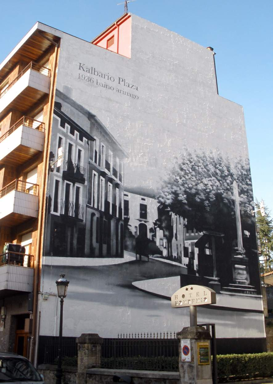 Mural en Amorebieta (Vizcaya)